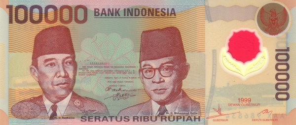 Indonesian currency issued 1998-2005.